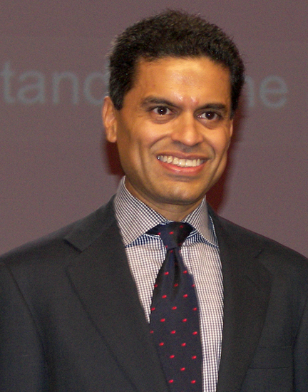 Fareed Zakaria, Editor, Newsweek International was a featured speaker at Charles Schwab Institutional Impact 2007 at the Mandalay Bay Convention Center, Las Vegas, Nevada, United States.